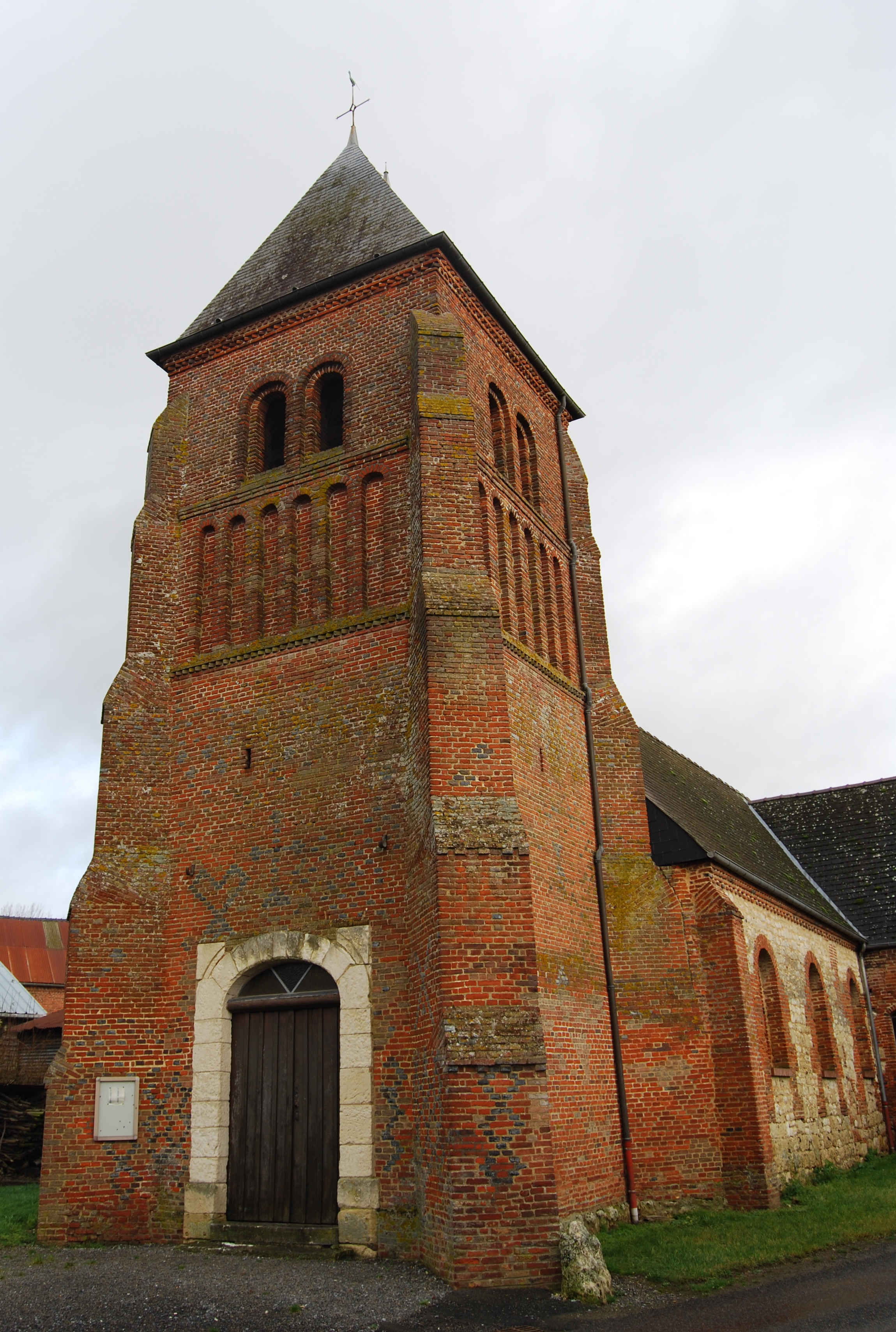 Lugny Saint-Quentin Church (Aisne, Picardy, France)